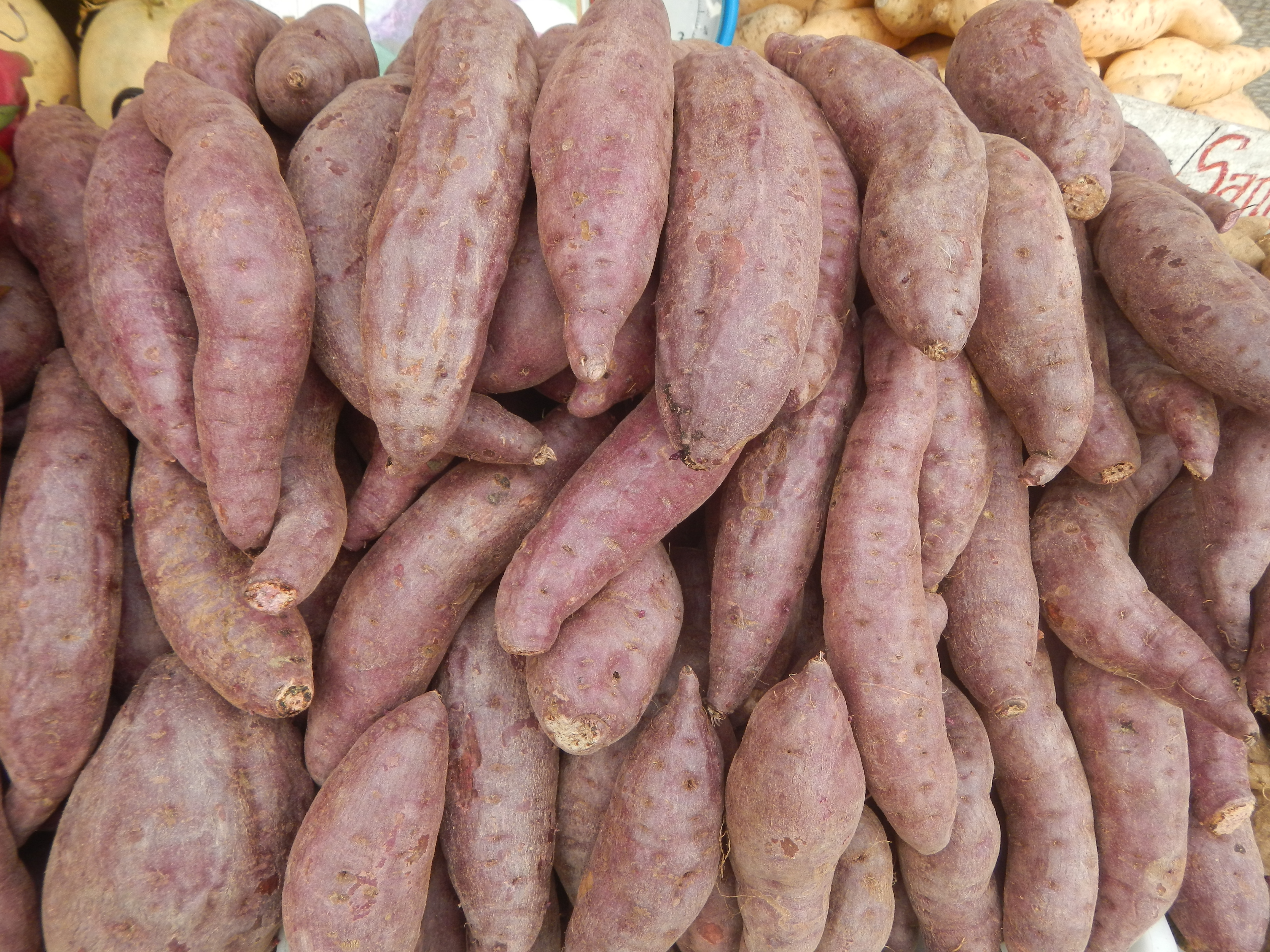 Chowking restaurants, Jollibee products, Doughnuts of the Philippines, Benincasa pruriens Kundol fruit, Kamote, Kiampong, Lugaw (Note: Judge Florentino Floro, the owner, to repeat, Donor Florentino Floro of all these photos hereby donate gratuitously, freely and unconditionally all these photos to and for Wikimedia Commons, exclusively, for public use of the public domain, and again without any condition whatsoever).